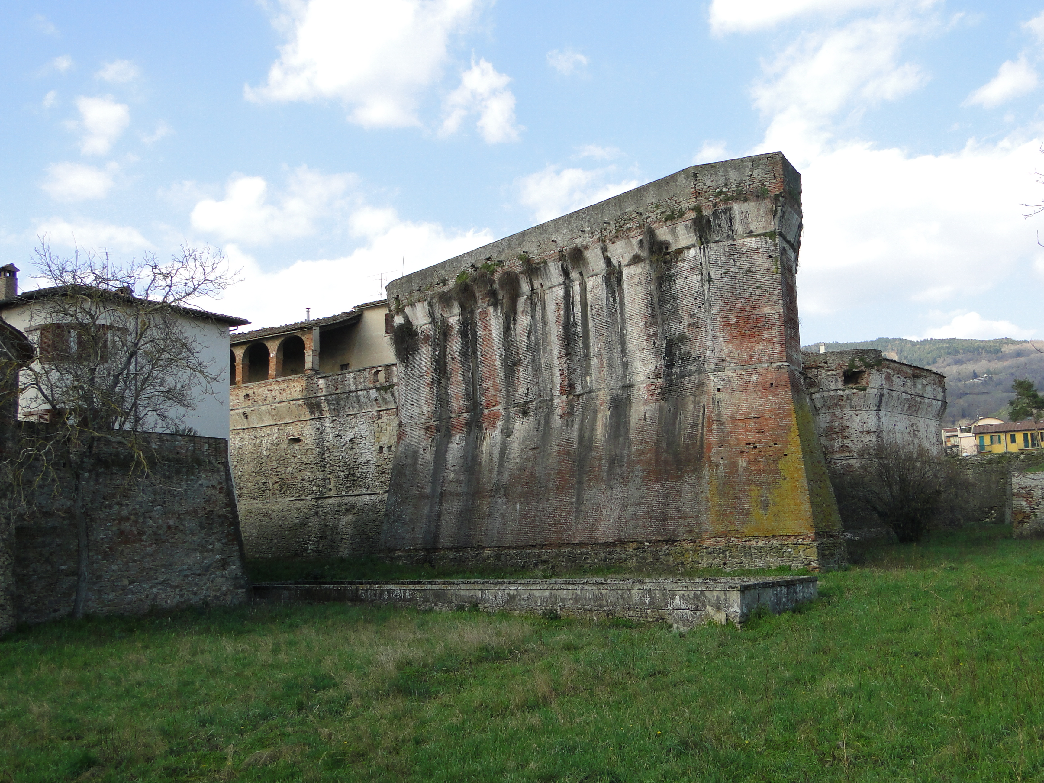 Sansepolcro-Fortezza medicea (Fortress by Medicis)